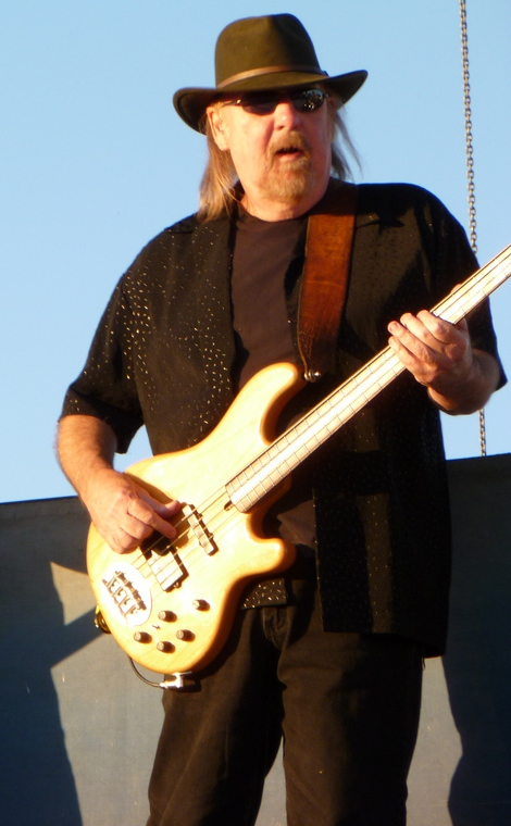 Larry Junstrom, bassist of .38 Special and former member of Lynyrd Skynyrd, performing live at Dixon May Fair (2010).